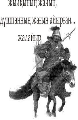 kazak man...